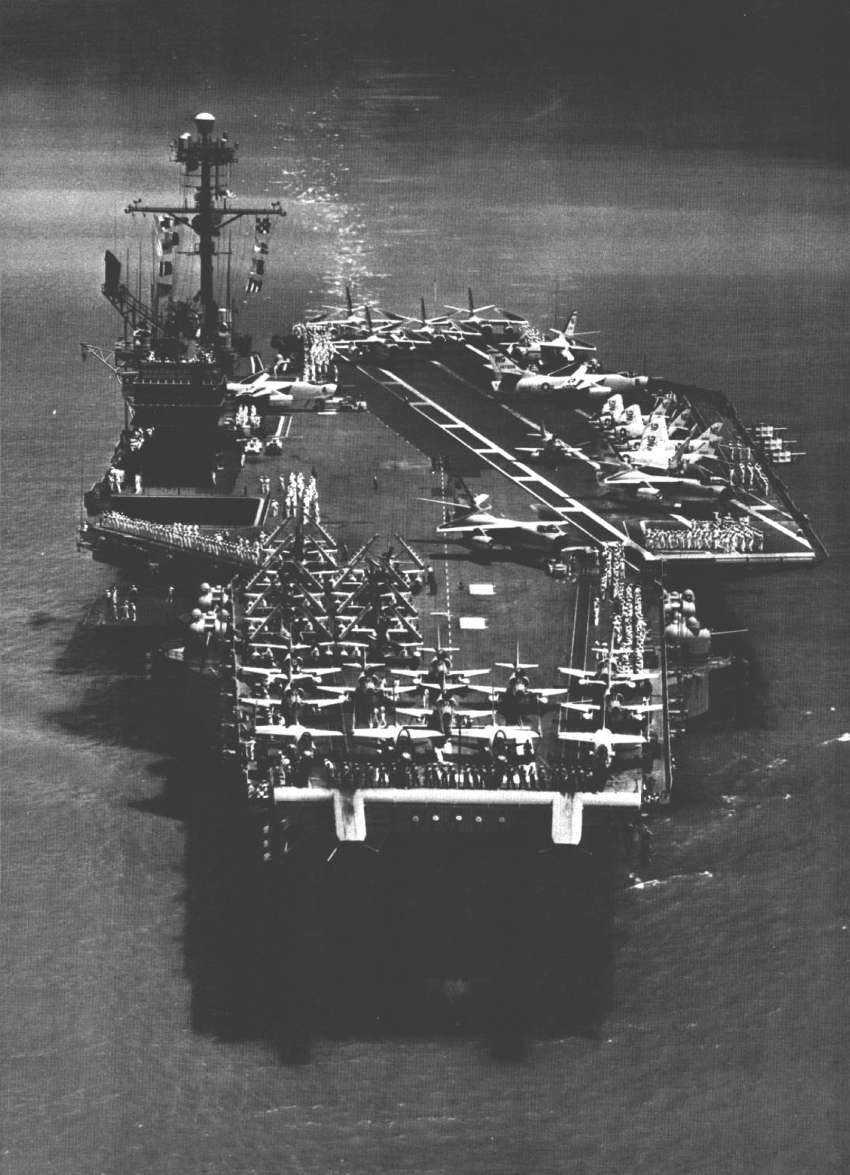 The U.S. Navy aircraft carrier USS Ranger (CVA-61) prepares to dock at Pearl Harbor, Hawaii (USA). Ranger, with assigned Carrier Air Group 9 (CVG-9), was deployed to the Western Pacific from 11 August 1961 to 8 March 1962.